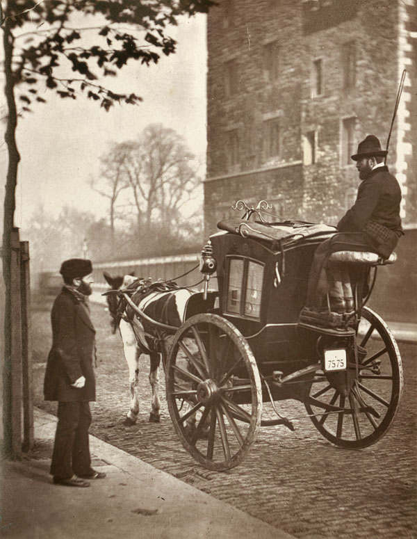 From 'Street Life in London', 1877, by John Thompson and Adolphe Smith …Despite the traditional hoarse voice, rough appearance, and quarrelsome tone, cab-drivers are as a rule reliable and honest men, who can boast of having fought the battle of life in an earnest, persevering, and creditable manner. Let me take, for instance, the career, as related by himself, of the cab-driver who furnishes the subject of the accompanying illustration. He began life in the humble capacity of pot-boy in his uncle's public-house, but abandoned this opening in consequence of a dispute, and ultimately obtained an engagement as conductor from the Metropolitan Tramway Company. In this employment the primary education he had enjoyed while young served him to good purpose, and he was soon promoted to the post of time-keeper. After some two years' careful saving he collected sufficient money to buy a horse, hire a cab, and obtain his licence… For the full story, and other photographs and commentaries, follow this link and click through to the PDF file at the bottom of the description Street Life in London, published in 1876-7, consists of a series of articles by the radical journalist Adolphe Smith and the photographer John Thomson. The pieces are short but full of detail, based on interviews with a range of men and women who eked out a precarious and marginal existence working on the streets of London, including flower-sellers, chimney-sweeps, shoe-blacks, chair-caners, musicians, dustmen and locksmiths. The subject matter of Street Life was not new – the second half of the 19th century saw an increasing interest in urban poverty and social conditions – but the unique selling point of Street Life was a series of photographs ‘taken from life’ by Thomson. The authors felt at the time that the images lent authenticity to the text, and their book is now regarded as a key work in the history of documentary photography.